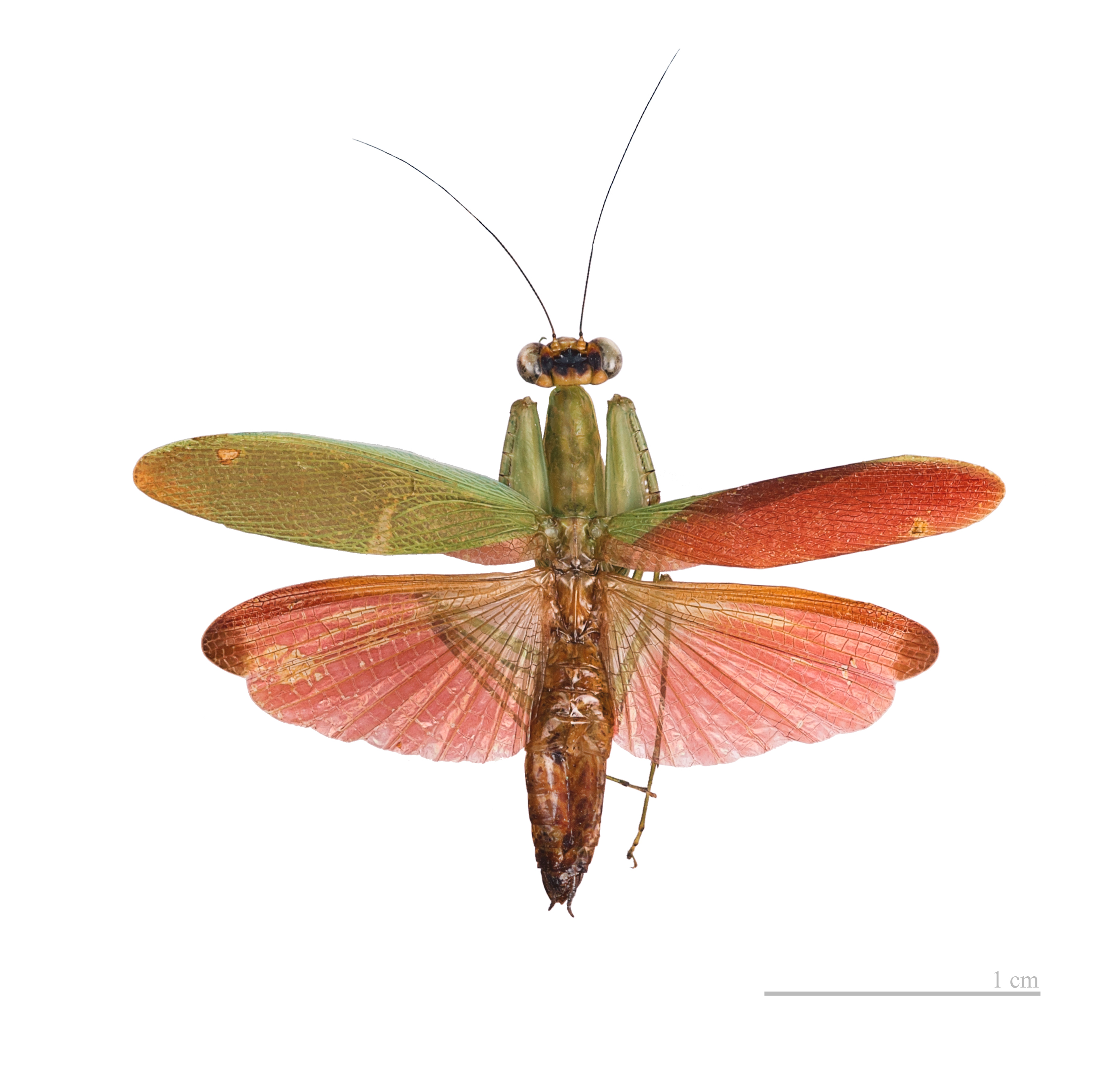 ♂ - Flying position Locality : Kaw road, Chemin Degrad Lalanne, French Guiana.